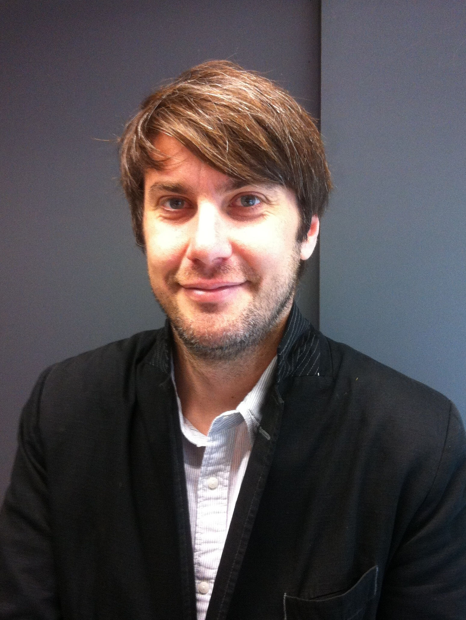 Bernat Dedéu